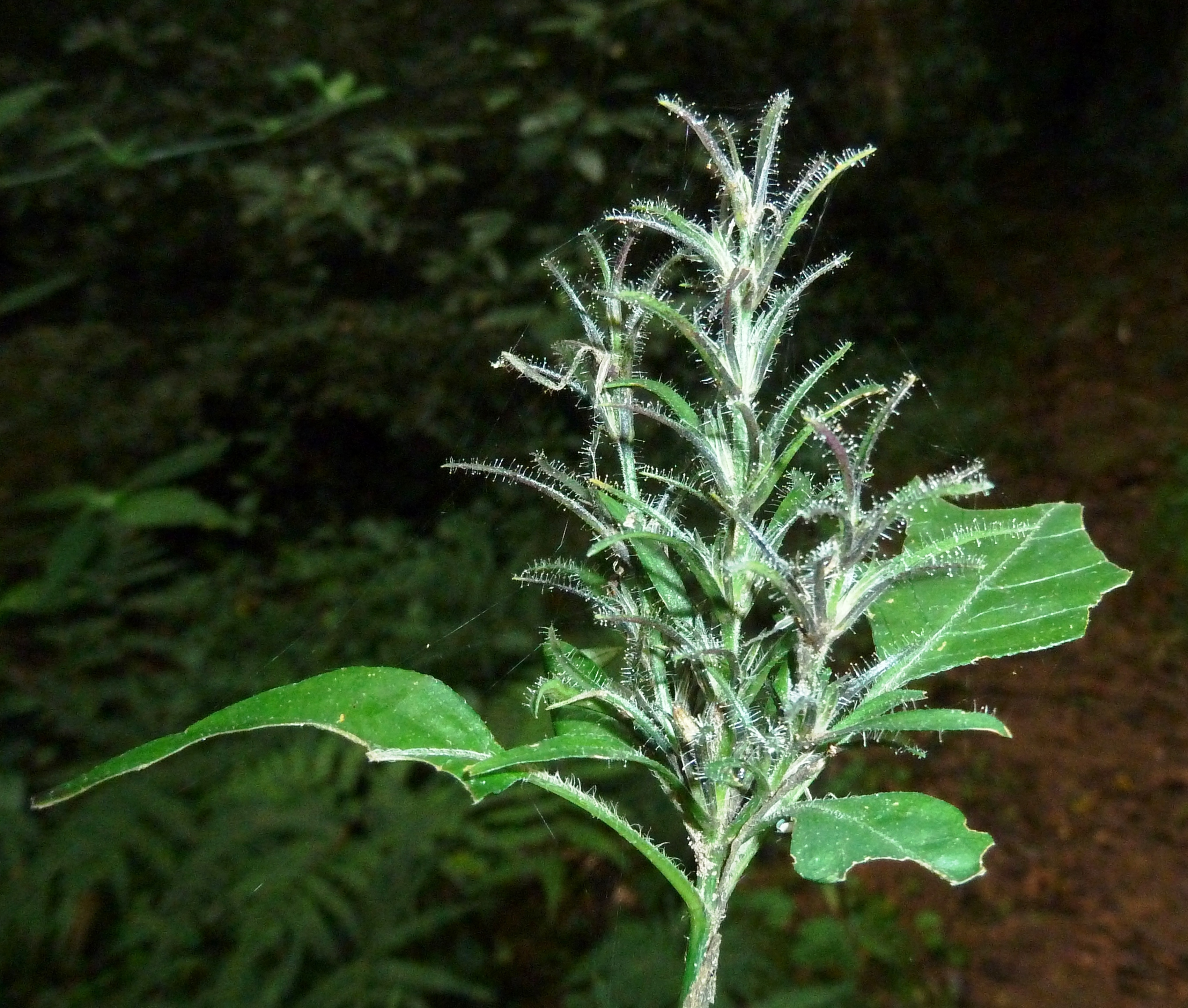 Isoglossa cooperi in the Krantzkloof Nature Reserve, KwaZulu-Natal